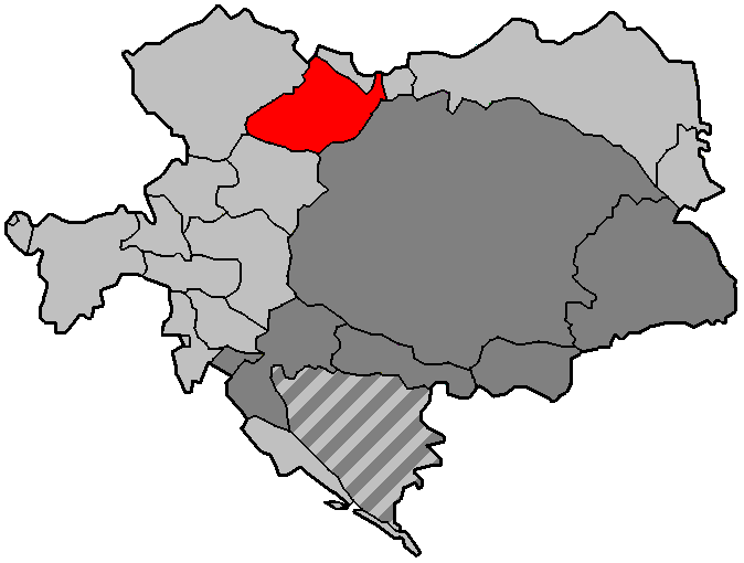 Map of Austria-Hungary